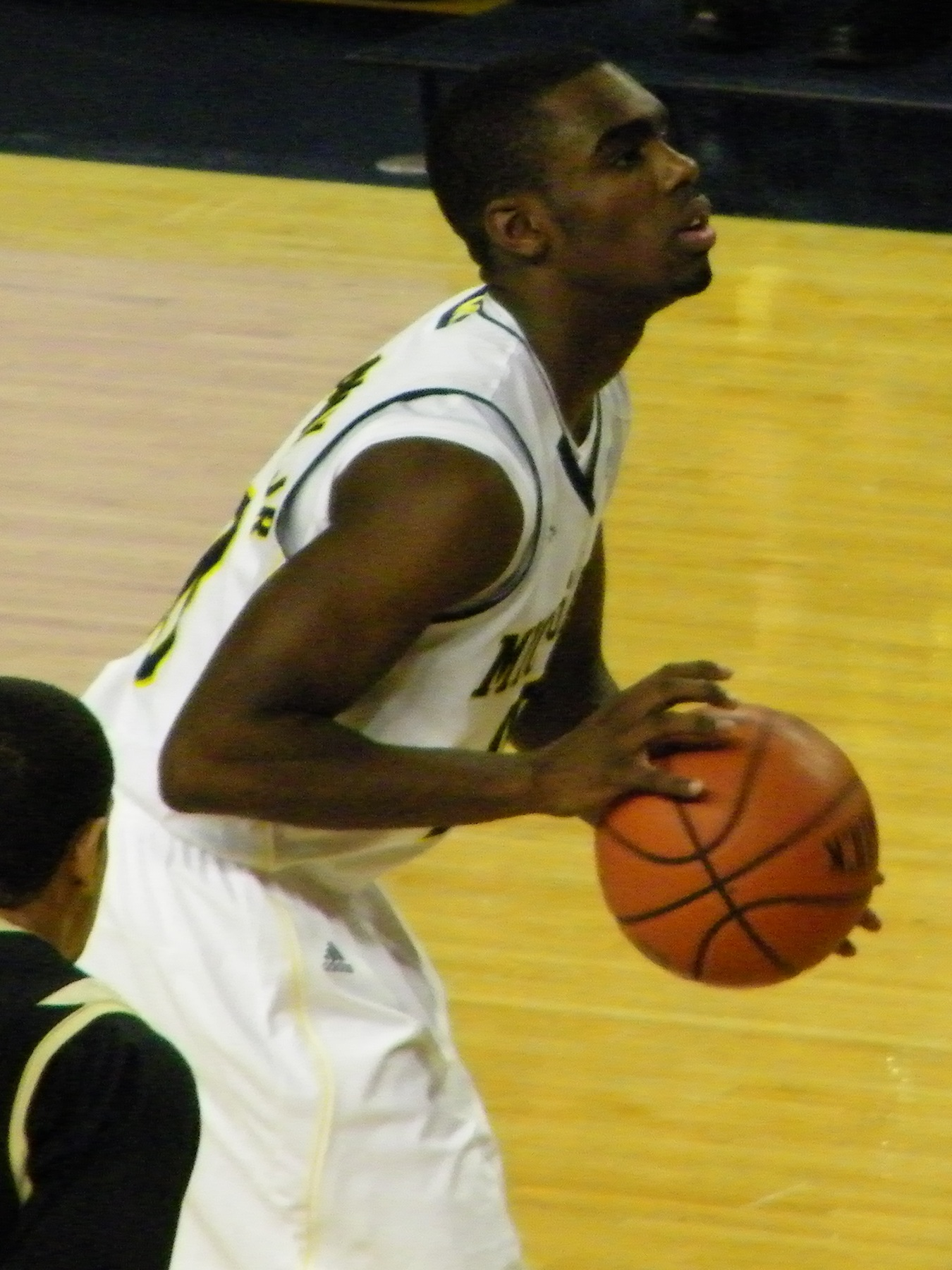 Tim Hardaway, Jr. at the University of Michigan's Men's Basketball team's 87-71 victory over Bryant College (Rhode Island) on Thursday December 23, 2010. The game was played at Michigan's Crisler Arena in Ann Arbor.